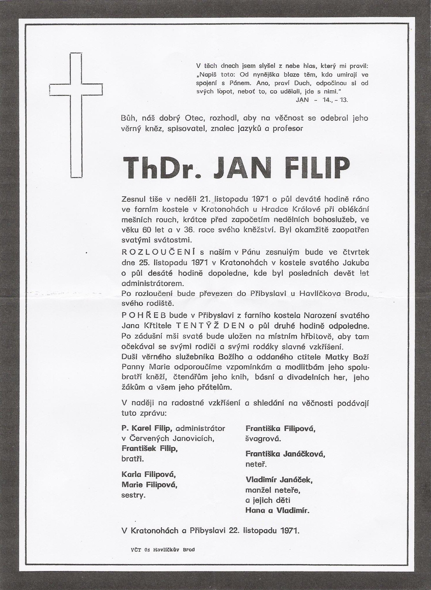 Obituary of ThDr. Jan Filip (1911–1971).